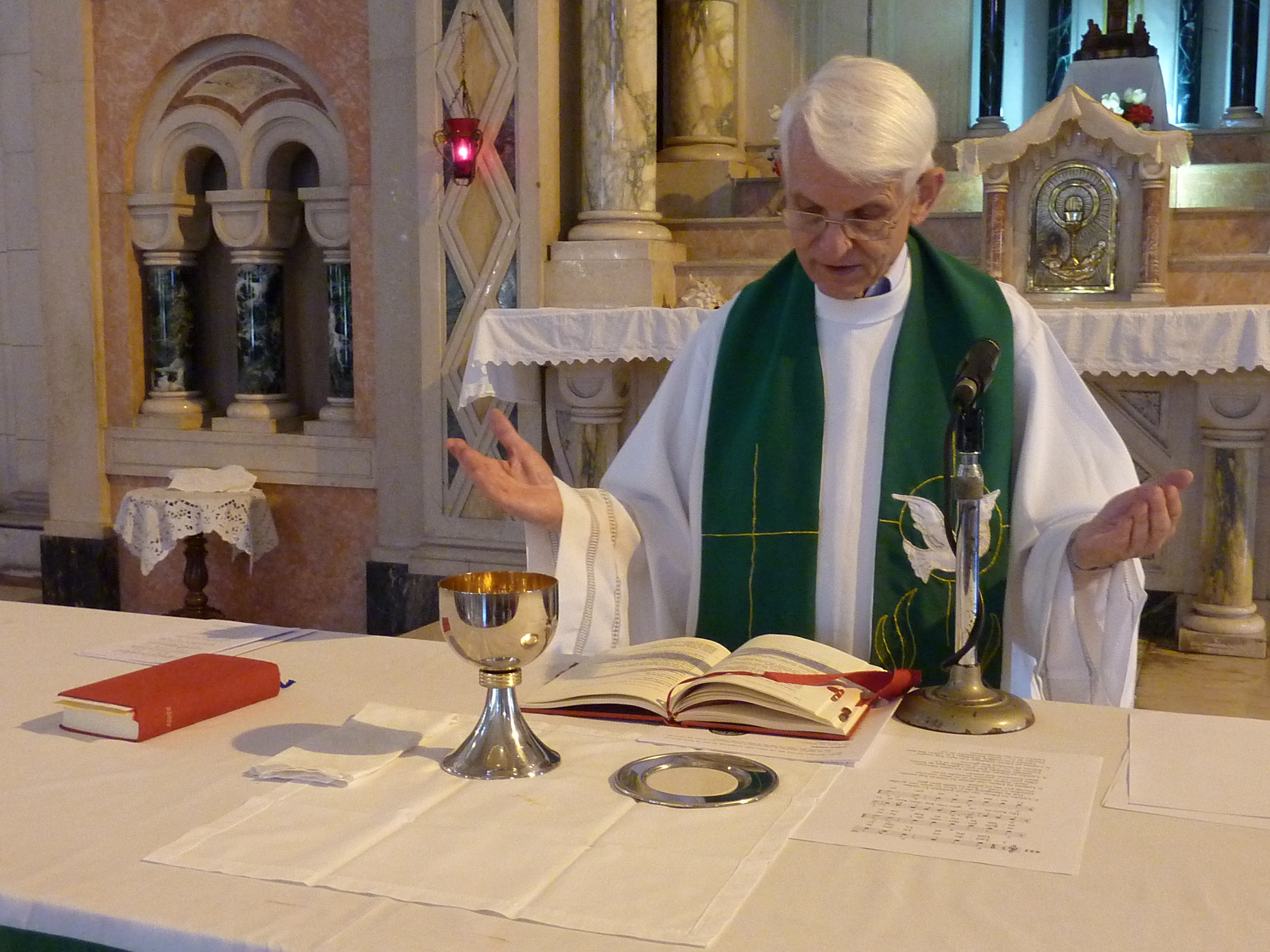 German Catholic priest and theologian Peter Knauer celebrating a holy mass in Esperanto in the church of Jesús de Miramar in Havana (Cuba).